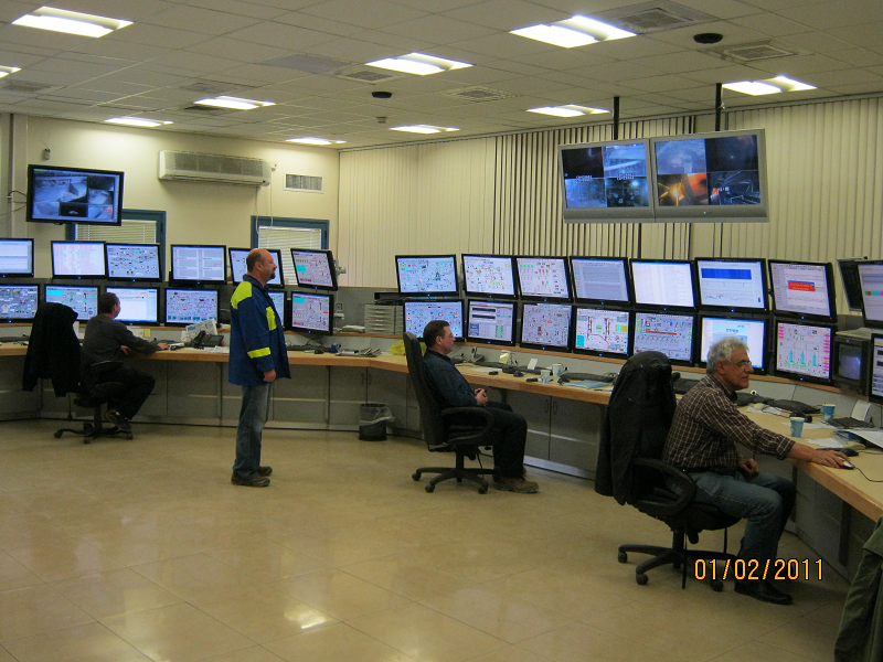 main control room - Nesher cement, Ramla, Israel